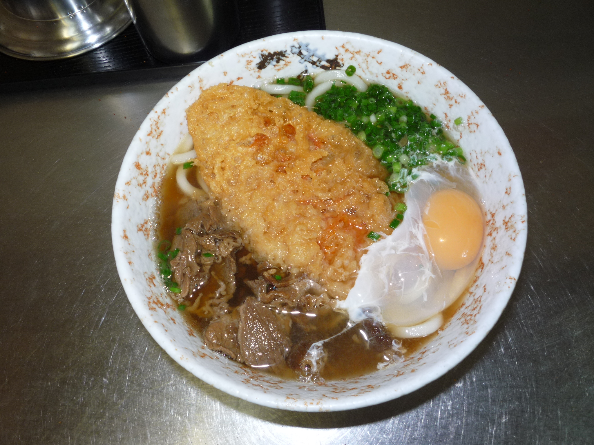 Niku tentama udon (udon with pork, tempura and egg) served at an udon shop at Hiroshima Station